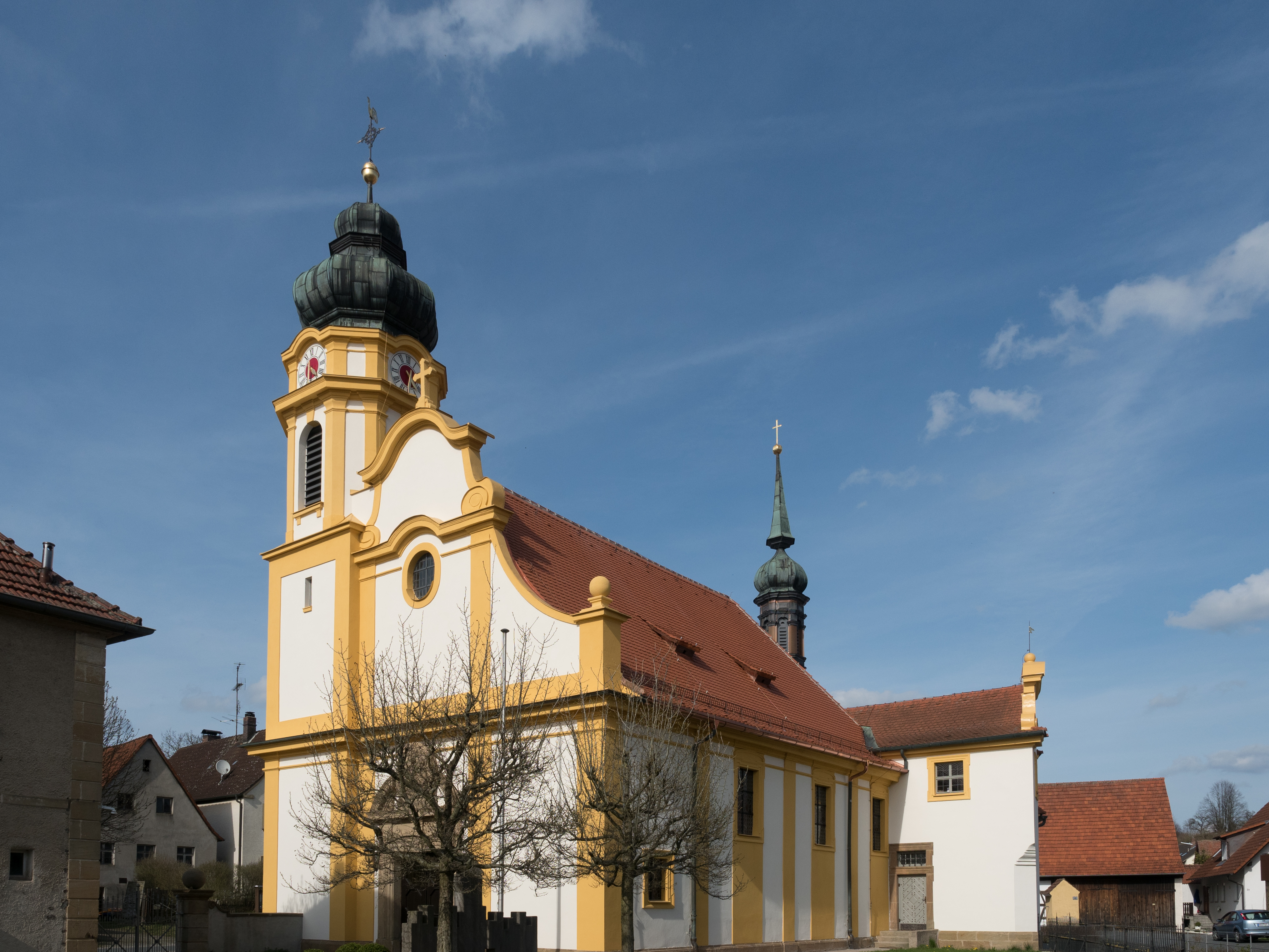 Church Assumption in Medlitz near Rattelsdorf